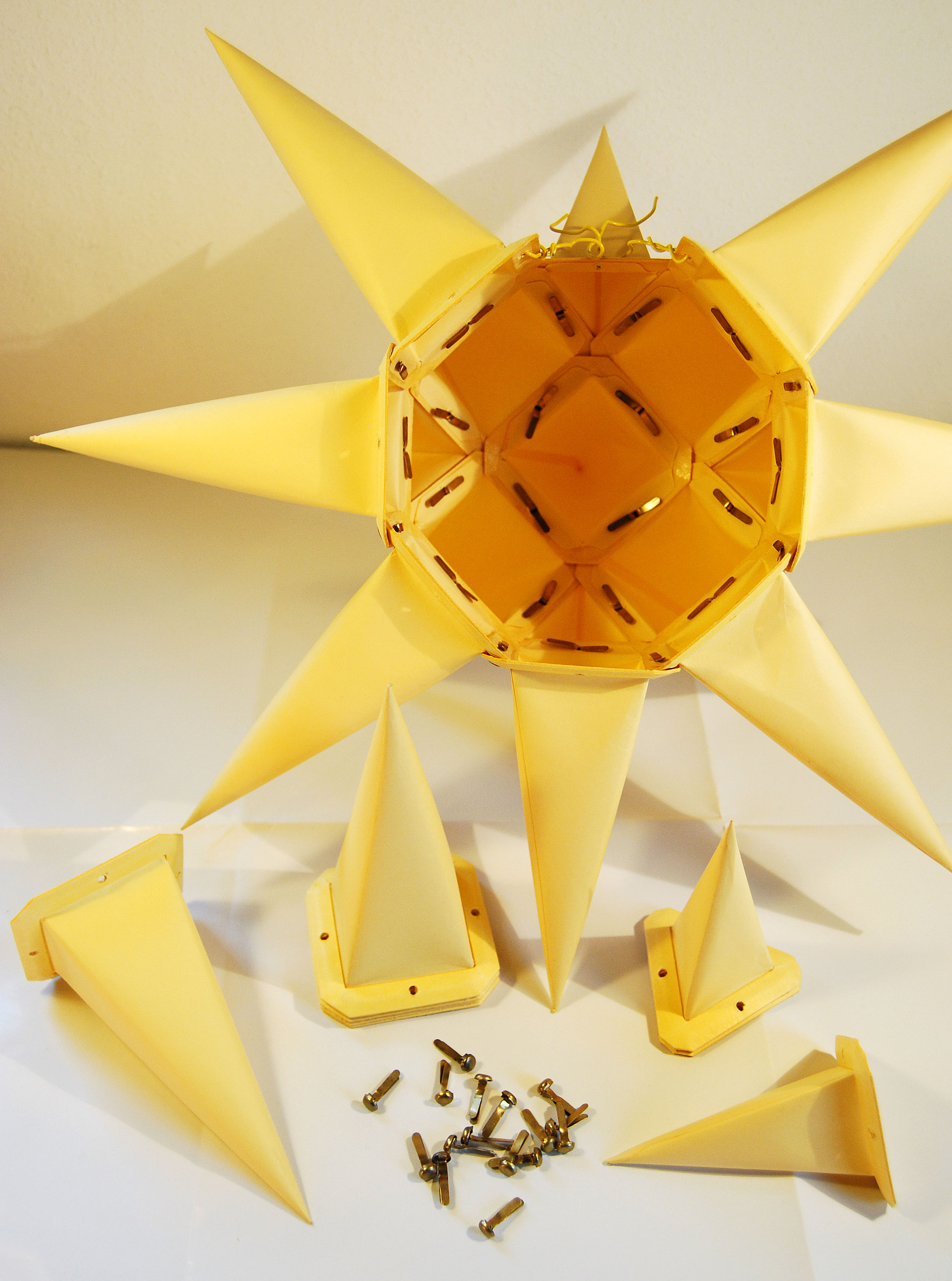 A Moravian star half done.